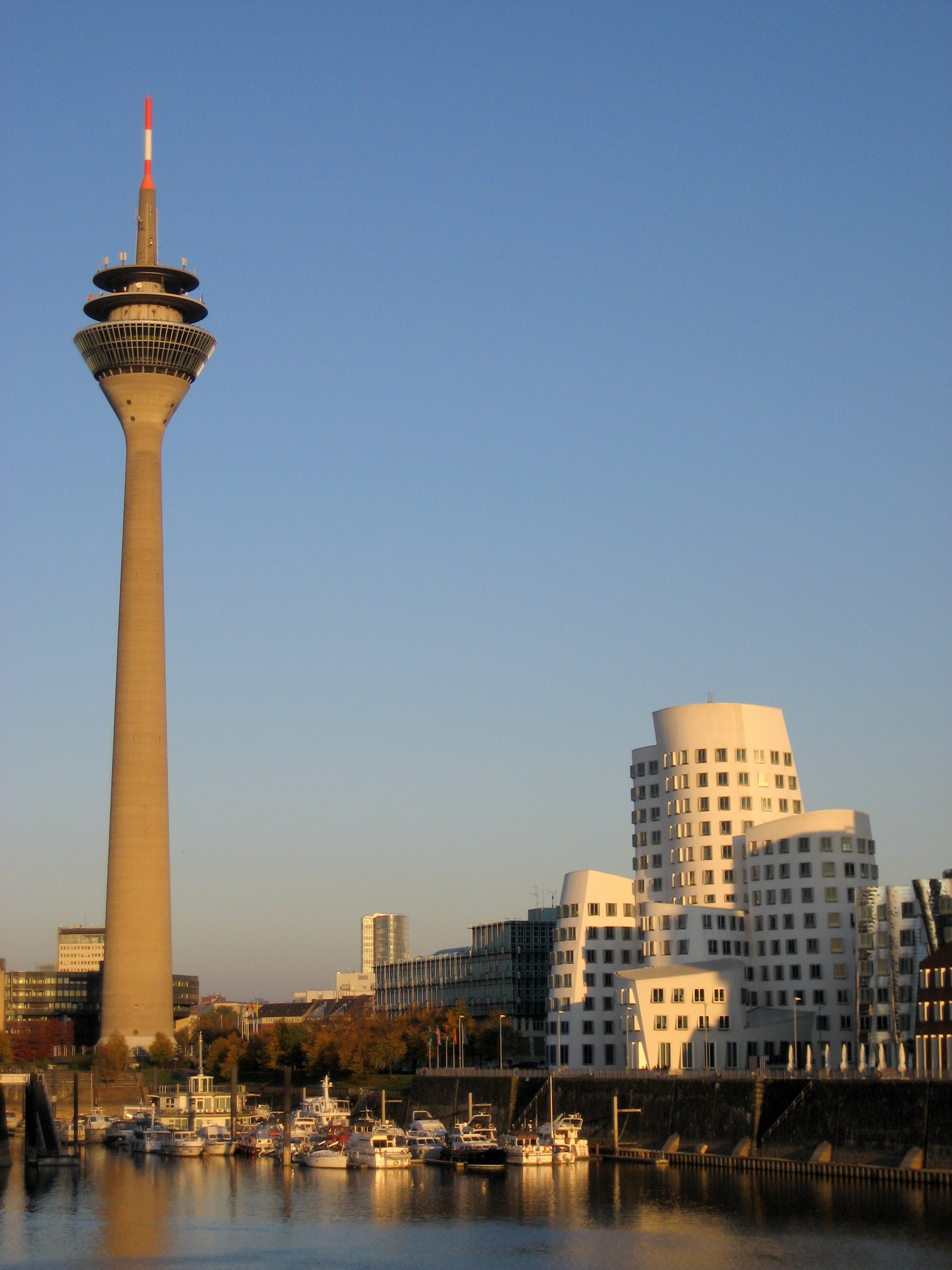 Medienhafen, Düsseldorf